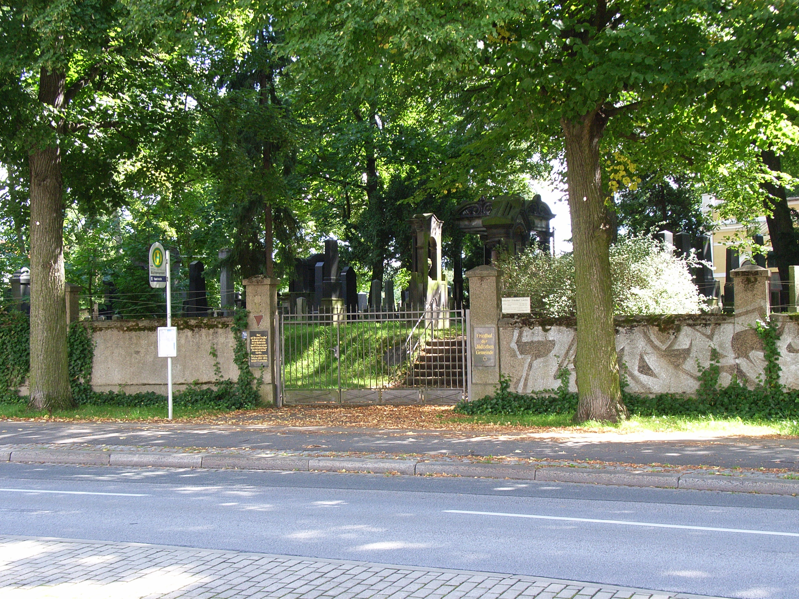 Jewish cemetery at the Biesnitzer Street in Görlitz, Saxony